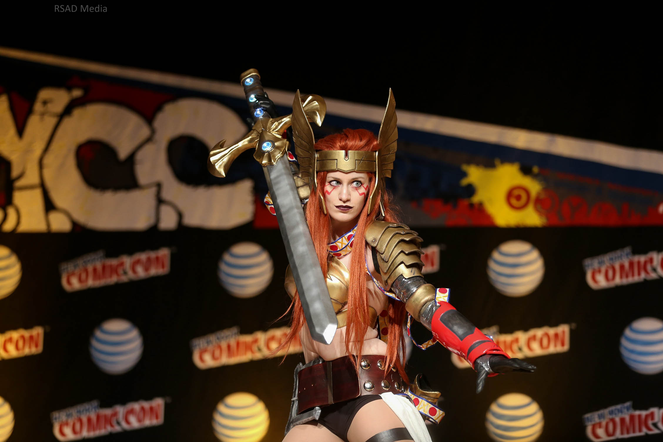 New York Comic Con 2015 - Angela Cosplay at the 2015 New York Comic Con (NYCC 2015).